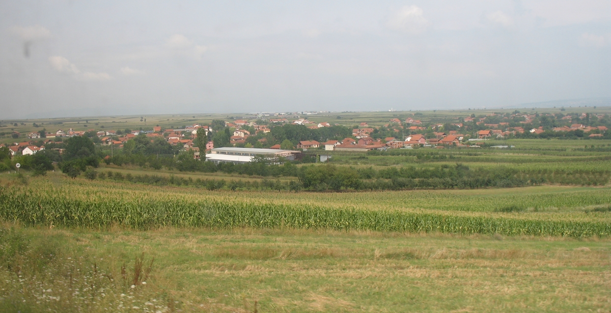 Jug Bogdanovac near Prokuplje in Merošina municipality, Serbia